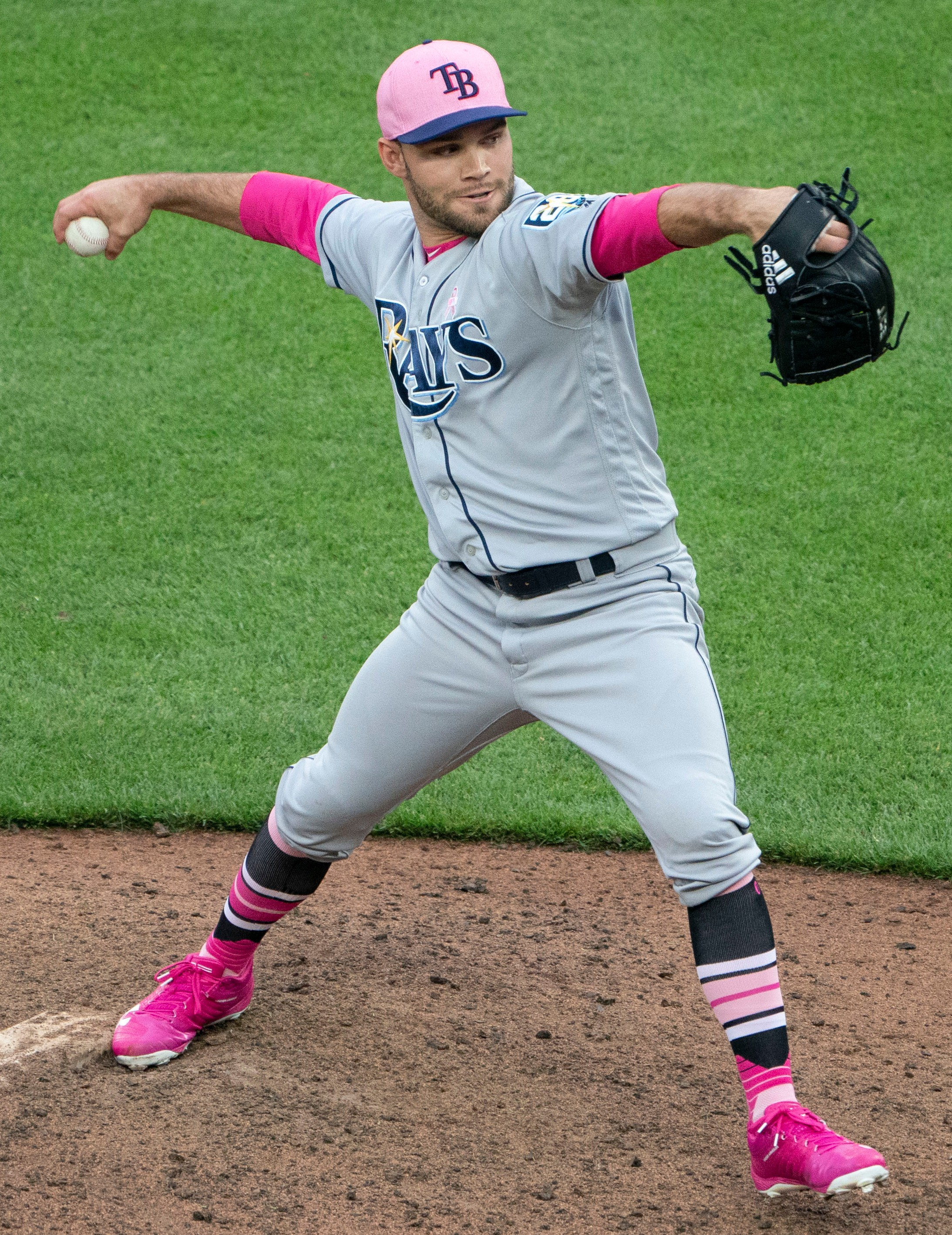 Johnny Field delivers a pitch for the Tampa Bay Rays during a 2018 game at Camden Yards in Baltimore.